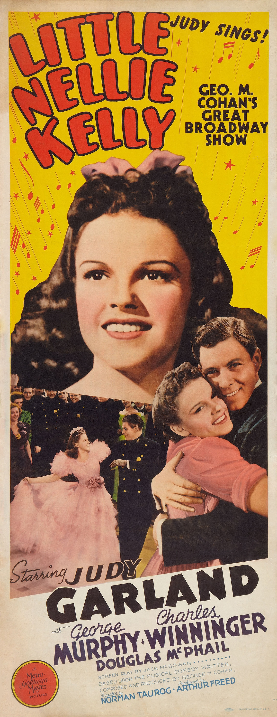 Poster for the 1940 film Little Nellie Kelly